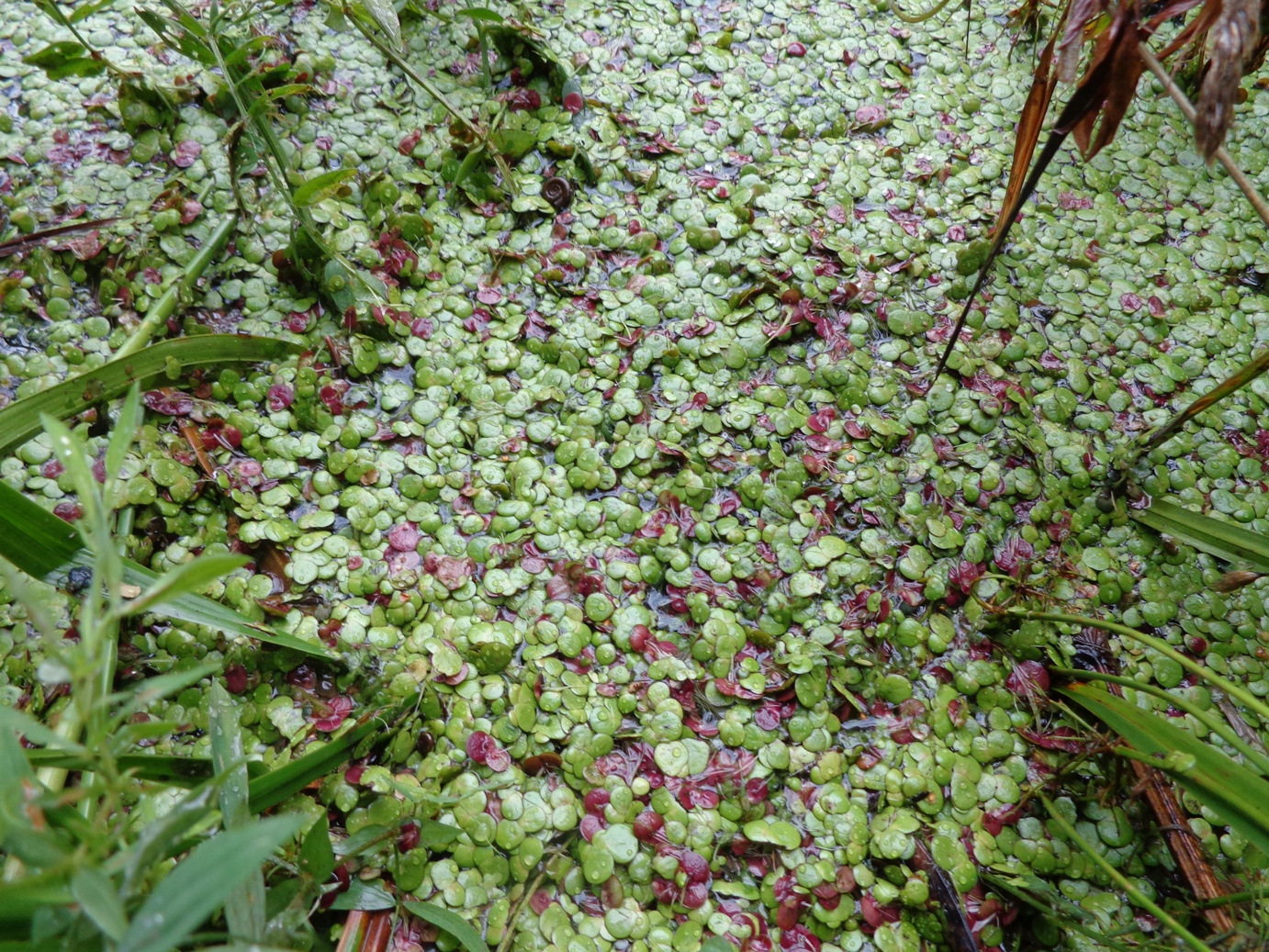 Spirodela polyrhiza. Found in Rīga town, Latvia